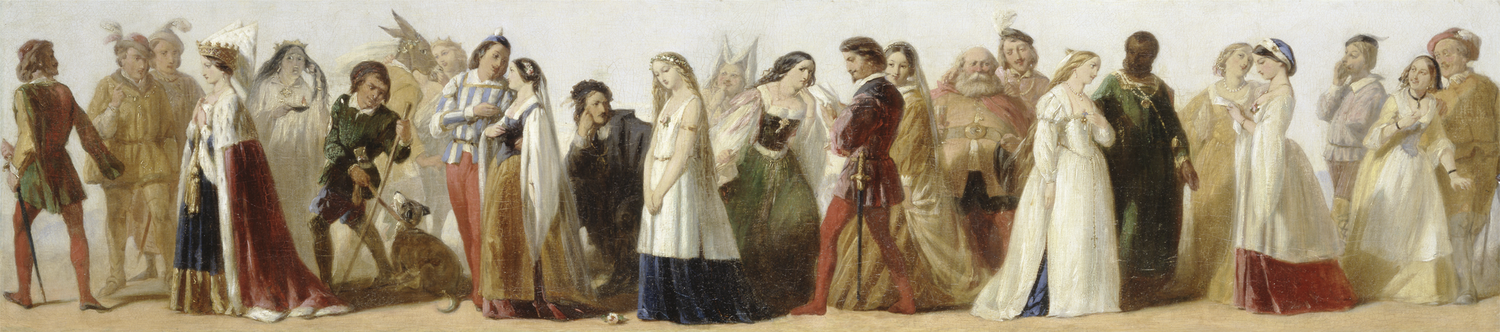 Procession of Characters from Shakespeare's Plays by Unknown artist, mid-19th century, British ; Formerly attributed to Daniel Maclise, 1806-1870